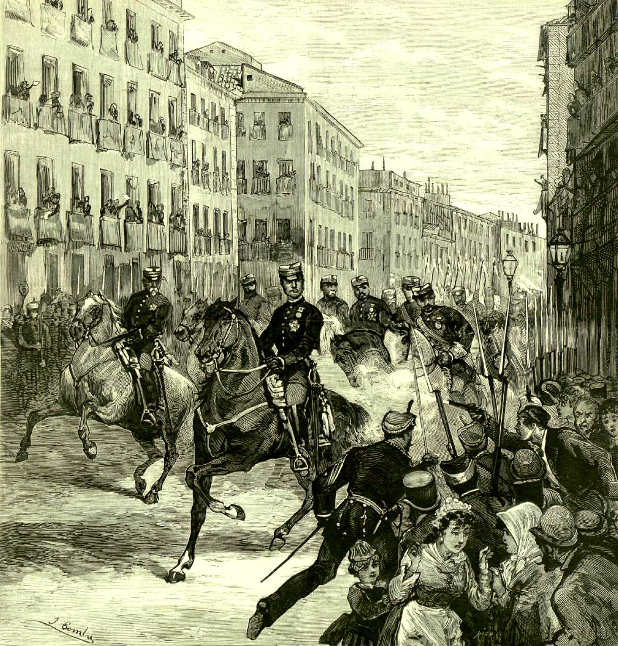 Assassination attempt of Juan Oliva Moncasí (Joan Oliva i Moncusí) on October 25, 1878.